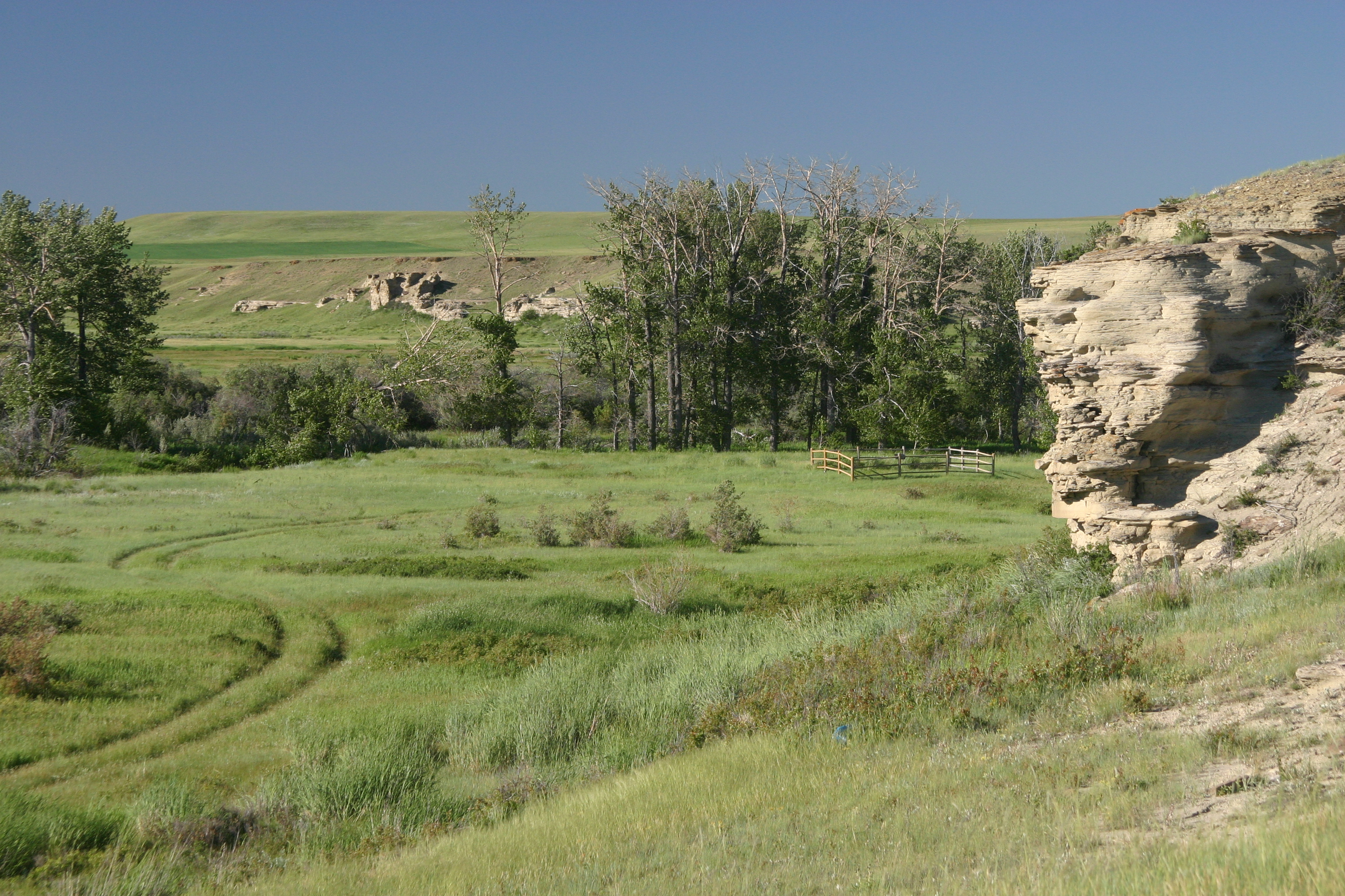 Camp Disappointment, the farthest north point of the Lewis & Clark Expedition. Lewis' camp site was presumably at the fenced-in historical marker at the center of the picture. The cottonwood trees in the background mark the banks of Cut Bank Creek. The ledge to the right was an ancient Indian buffalo jump.